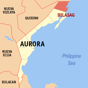 Map of Aurora showing the location of Dilasag